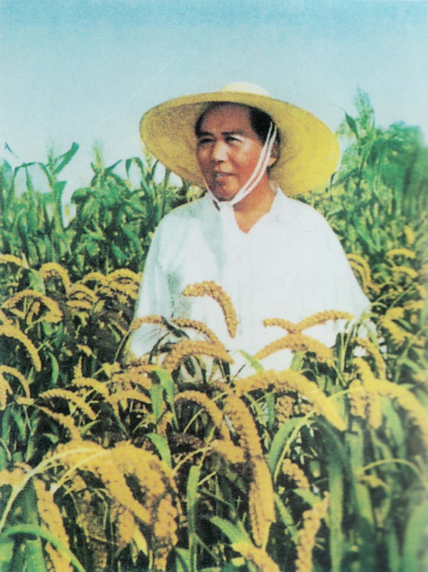 Photo of Mao Zedong in a rice field with hat, from Quotations from Chairman Mao Tse-Tung